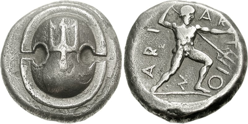 Boiotia, Haliartos. Circa 400-375 BC. AR Stater (20mm, 11.74 g, 12h). Boeotian shield decorated with upward trident in center Poseidon, naked, advancing right, extending right hand and brandishing trident in his left; ARI-AR-T-IO-N clockwise around from lower left; all within concave circle.